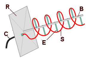 principle desing of a helical antenna